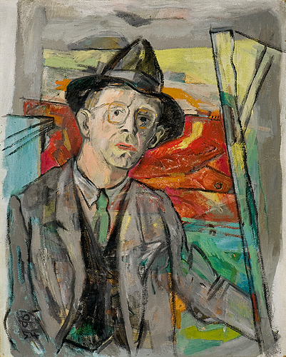 self-portrait, oil painting on canvas, Lorenz Leisner 1954